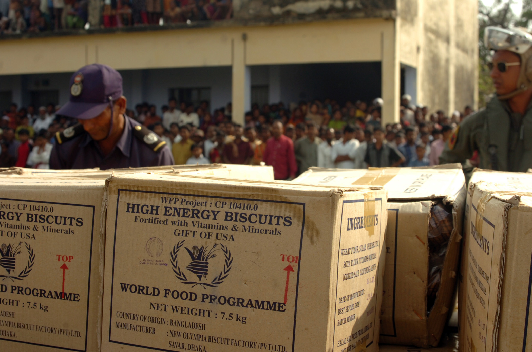 BARISAL, Bangladesh (Dec. 3, 2007) Boxes of relief supplies are piled near Bangladeshi citizens affected by Tropical Cyclone Sidr. The amphibious assault ship USS Kearsarge (LHD 3) and the embarked 22nd Marine Expeditionary Unit (Special Operations Capable) are conducting Humanitarian Assistance/Disaster Relief efforts in response to the government of Bangladesh's request for assistance after Tropical Cyclone Sidr struck their southern coast Nov. 15. The storm killed more than 3,000 people and has left several hundred thousand homeless. The Department of Defense effort is part of a larger U.S. response coordinated by the U.S. Department of State and U.S. Agency for International Development. U.S. Navy photo by Mass Communication Specialist Seaman Ash Severe (Released)